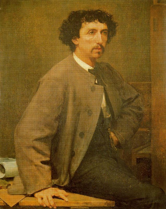 Portrait of Charles Garnier